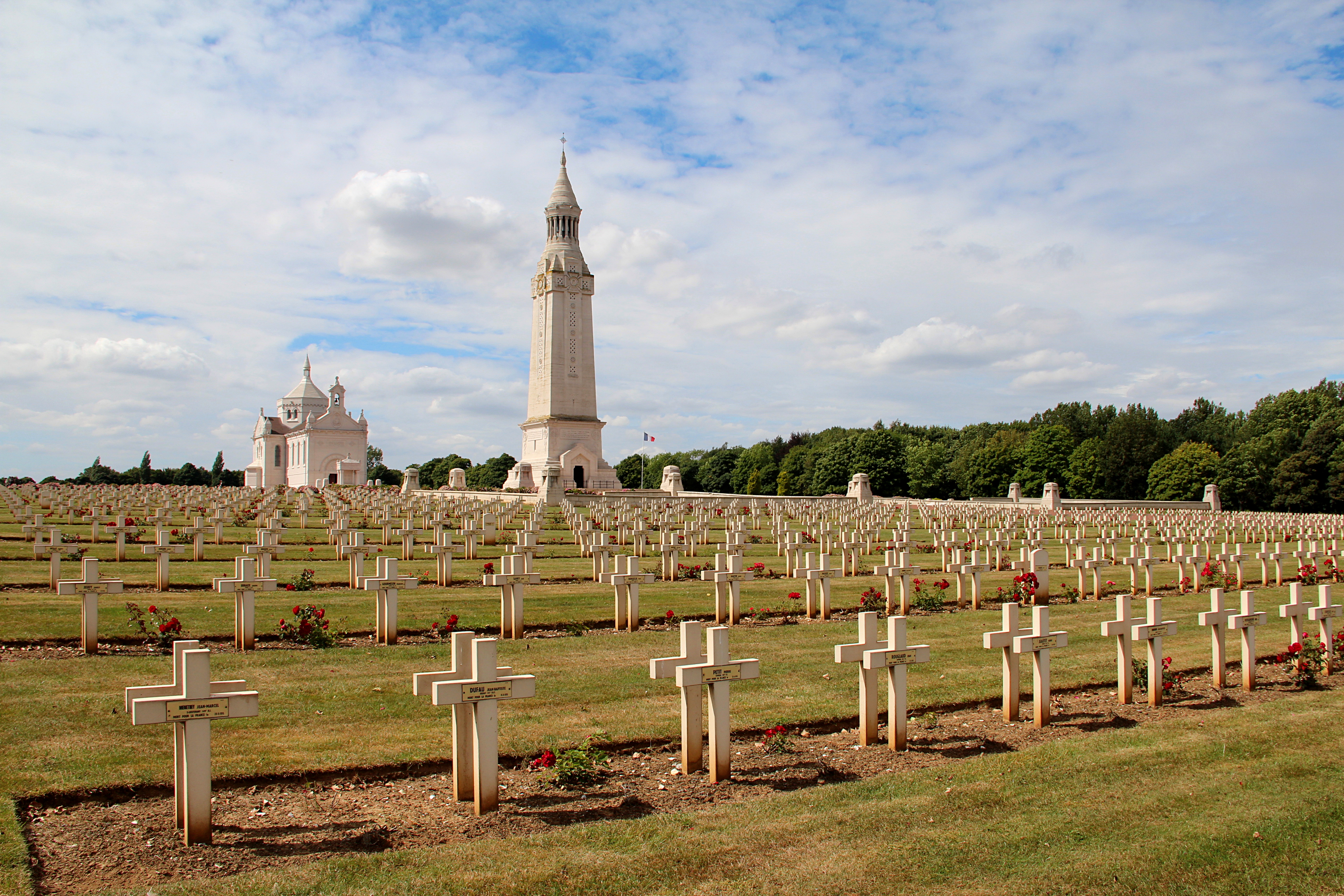 Ablain-Saint-Nazaire (Pas-de-Calais - France), National military cemetary of Notre-Dame-de-Lorette. .